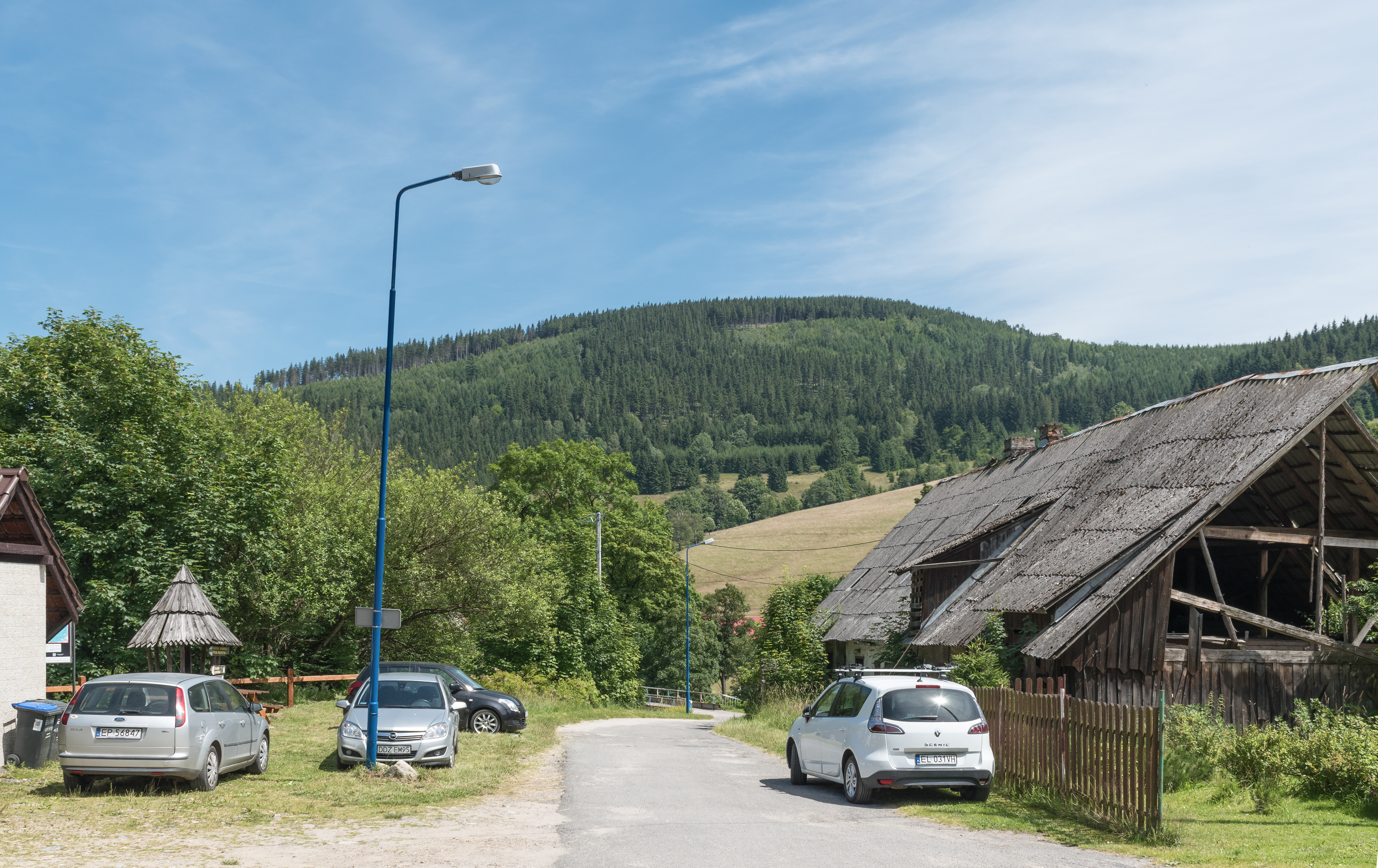 Kowadło, Złote Mountains, Sudetes